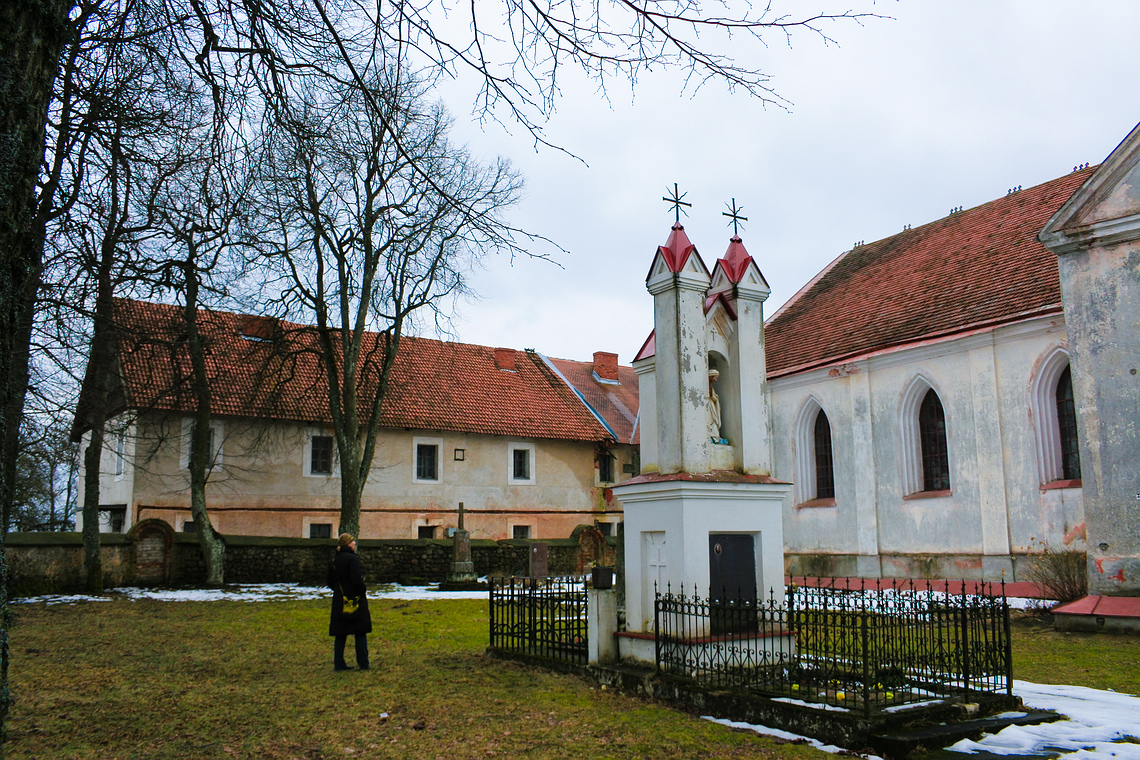 Senieji Trakai church and Benedictine cloister